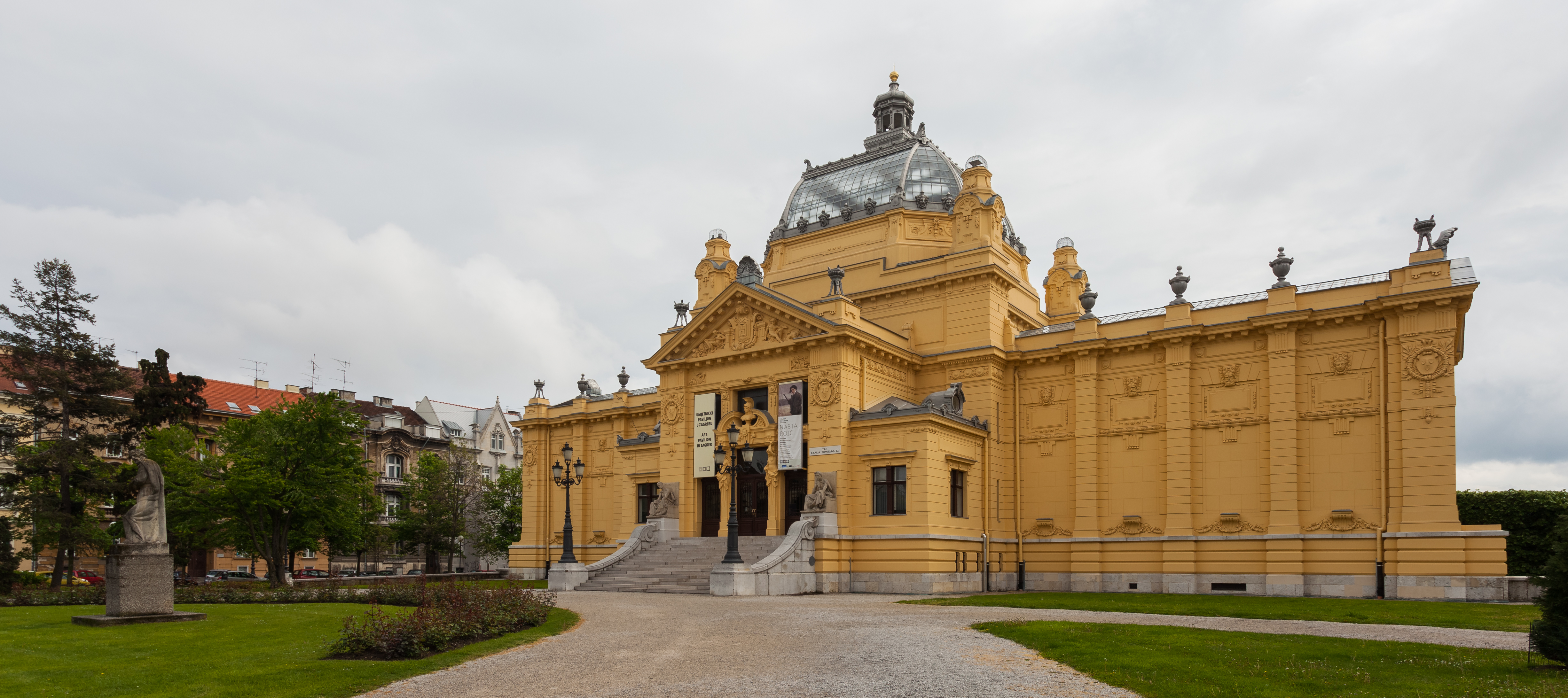 Art Pavillon, Zagreb, Croatia